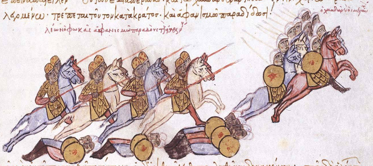 Leo Phokas defeats Hambdan at Adrassos